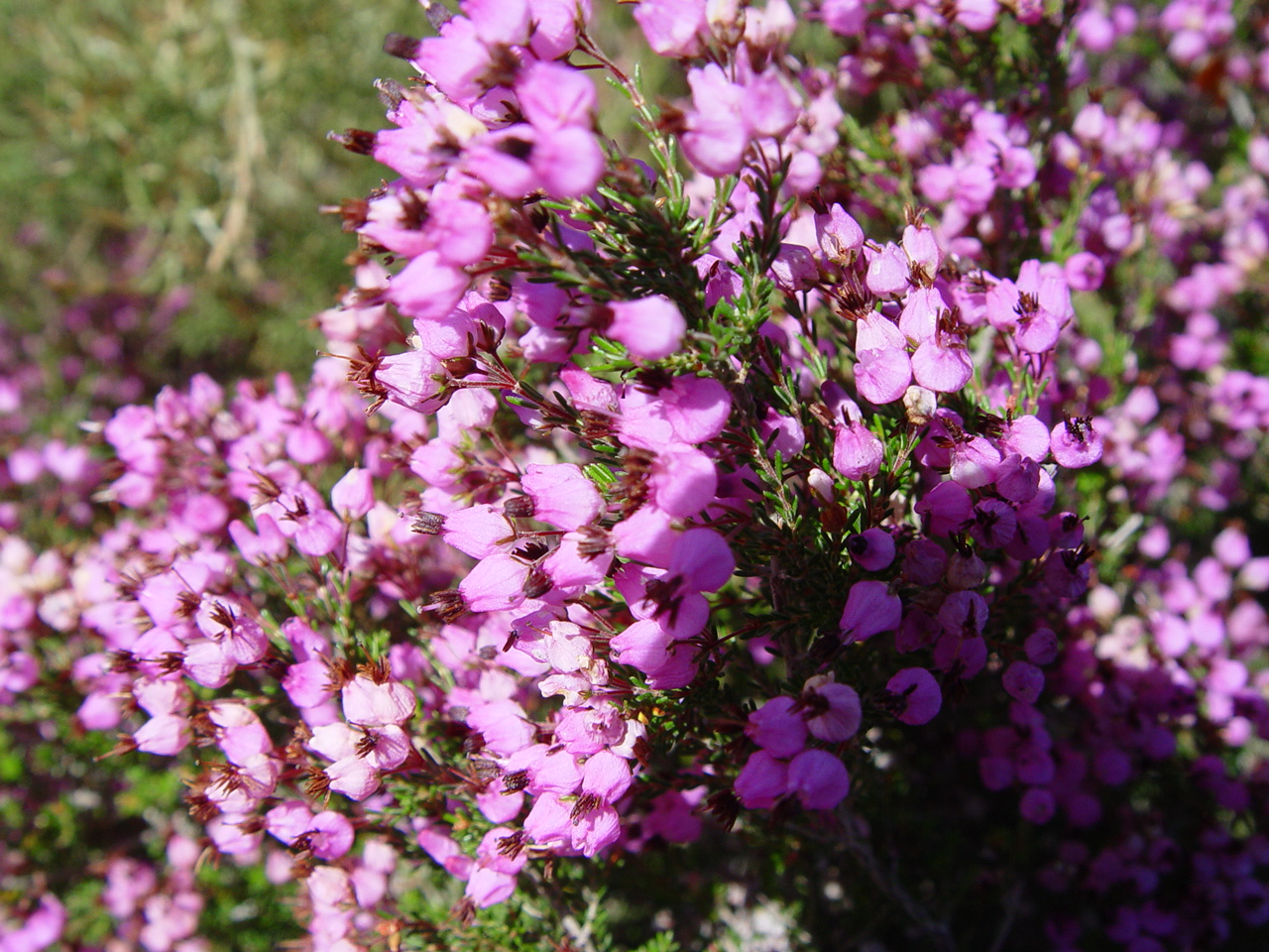 Name Erica australis Family Ericaceae